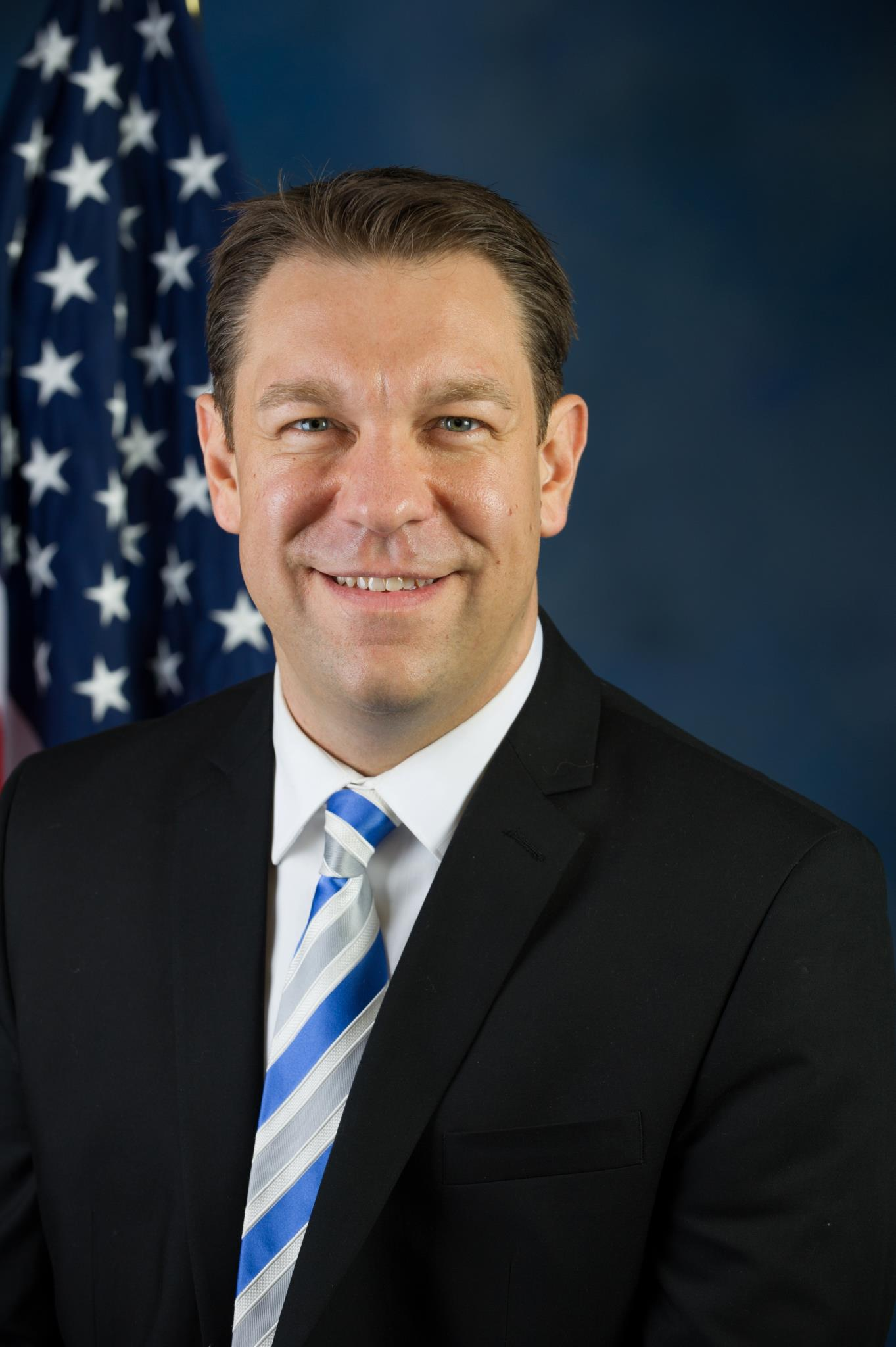 US Congressman Trey Radel